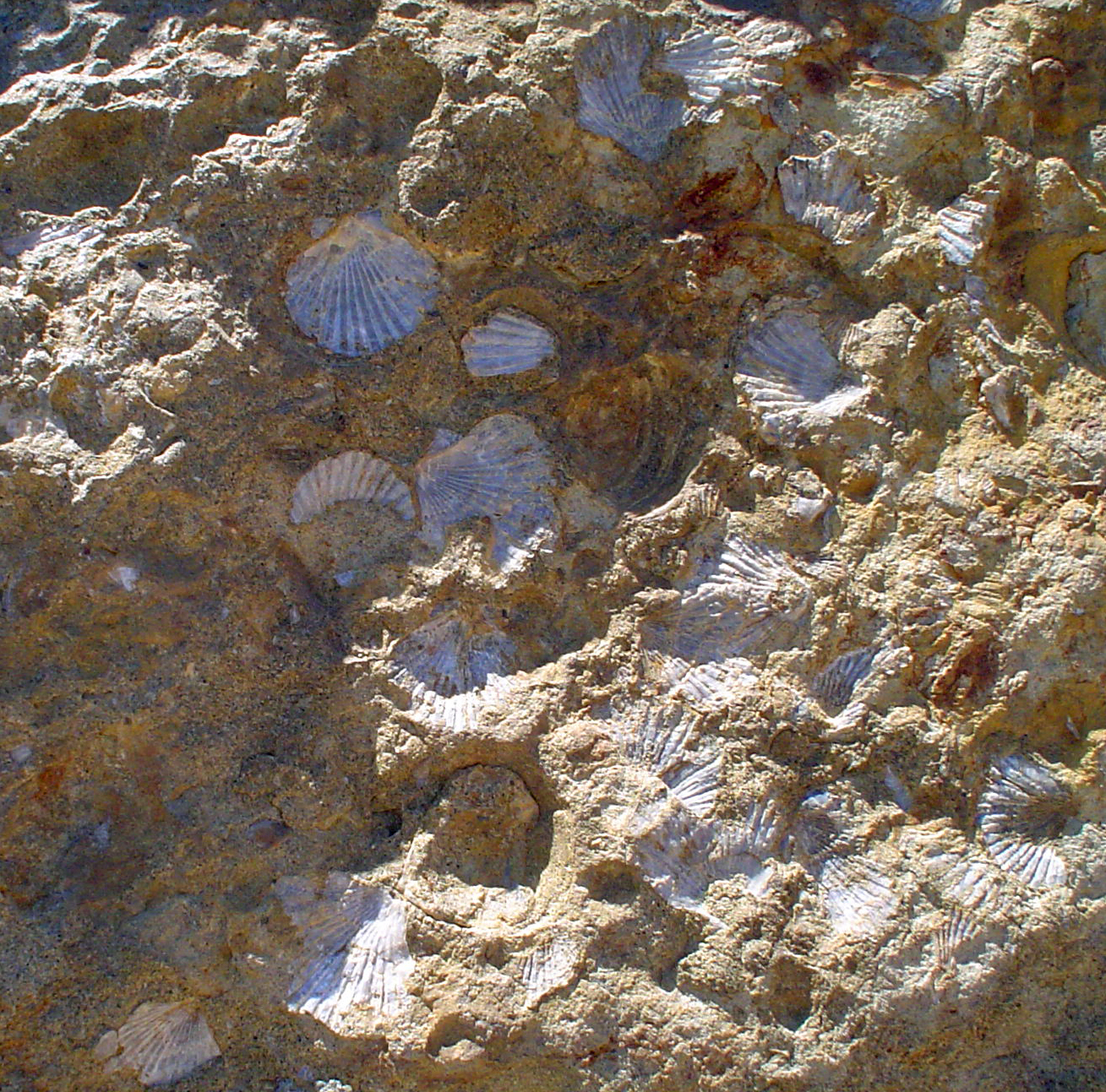 Fossilized sea shells in sandstone outcroppings at the summit of Mount Diablo, Contra Costa County, California (Altitude: 3,864 feet)